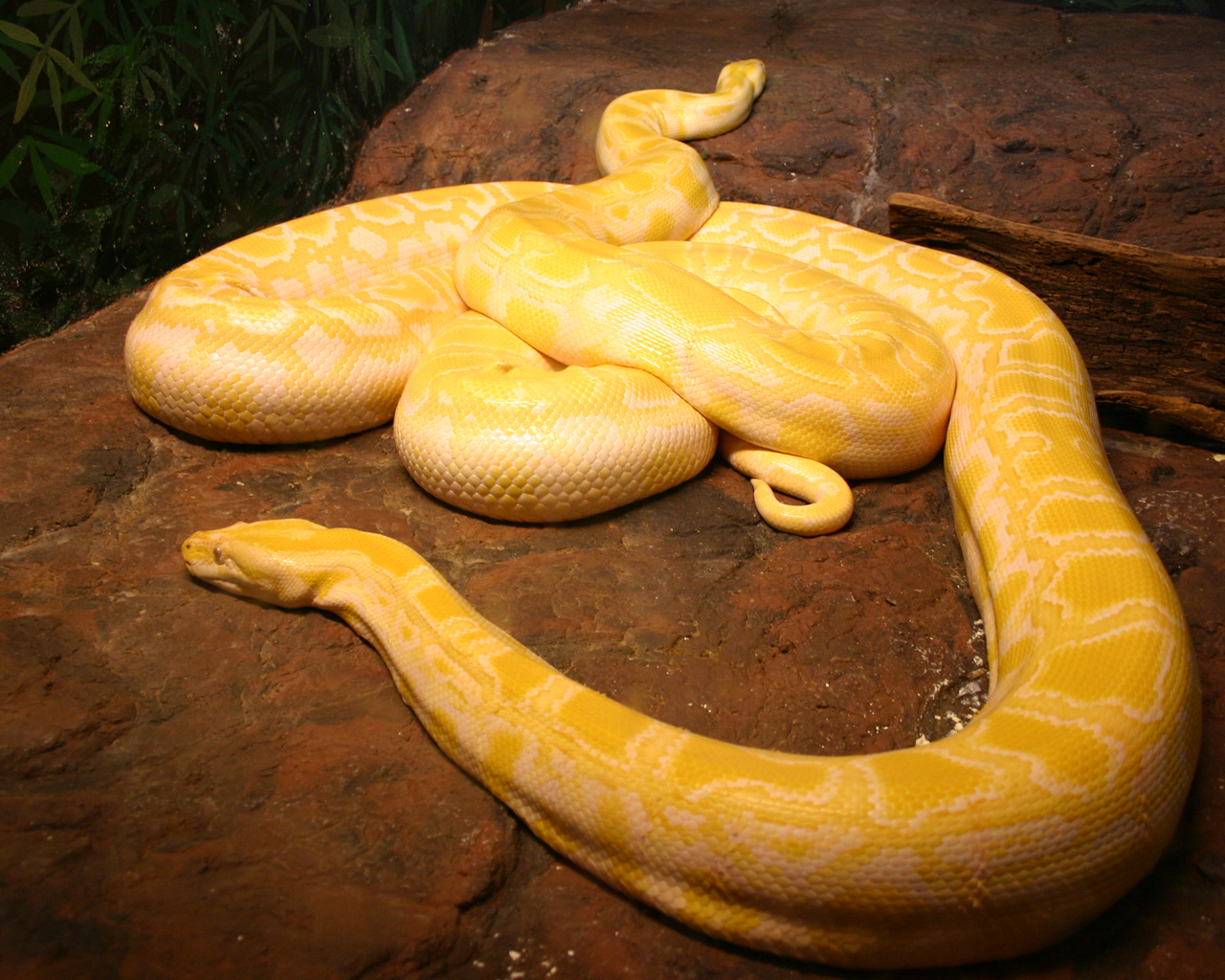 Two albino burmese pythons (Python bivittatus). Taken in 2004 at the Pittsburgh zoo.